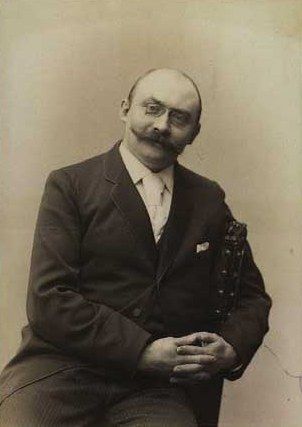 Arne Einar Christiansen (1861-1939), Danish journalist, playwright, critic, theatre manager, novelist, editor etc.